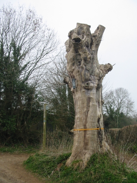 The Posy Tree, Mapperton. The plaque states that victims of The Great Plague were carried past this tree to a common grave by the surviving villagers.